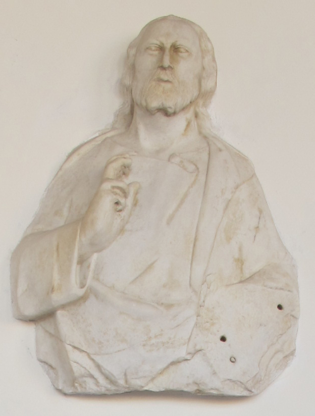 Sculpture in the National Pinacotheque, Siena